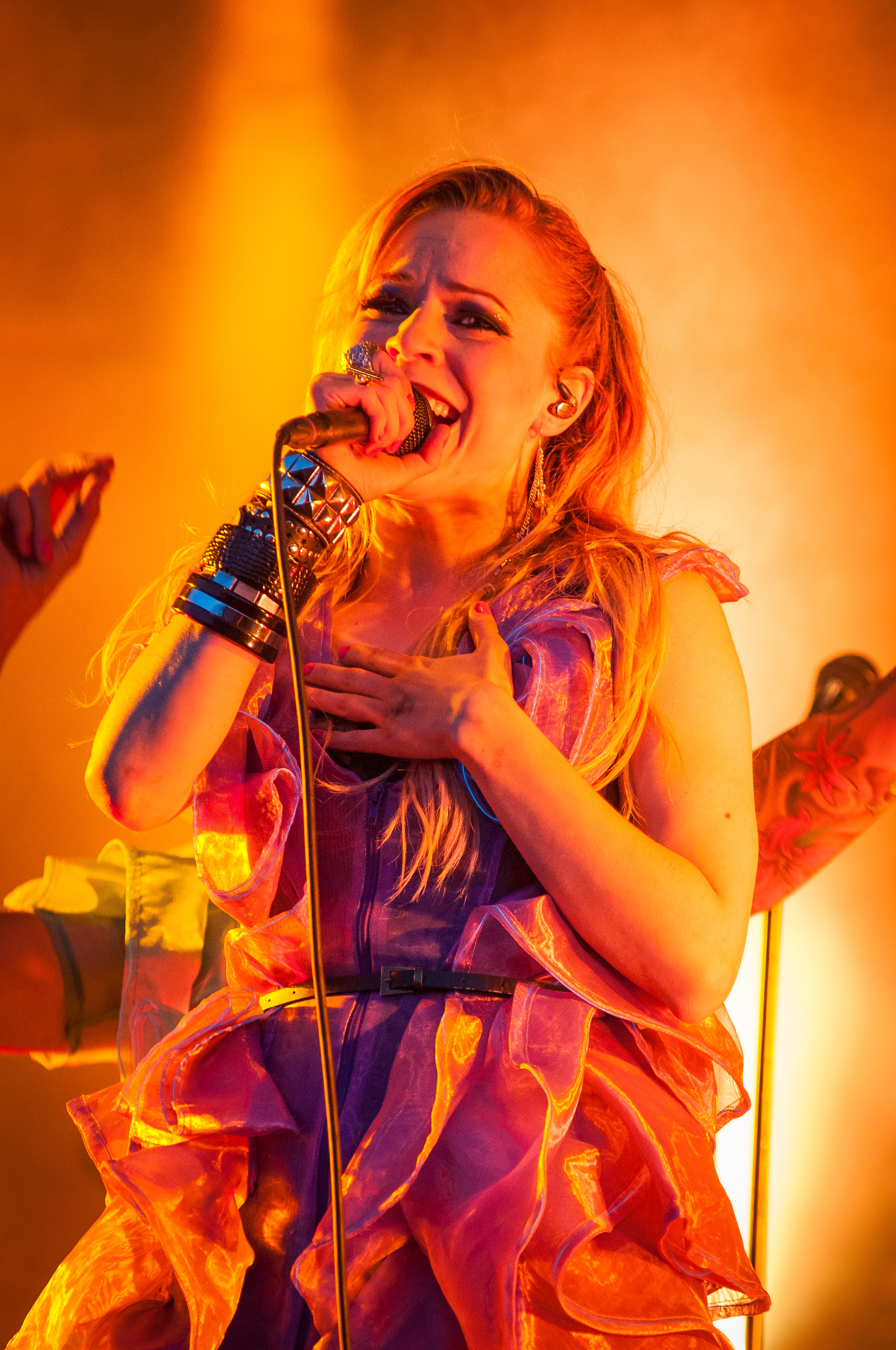 Finnish pop-rock duo PMMP performing at the Ilosaarirock festival in Joensuu, Finland.